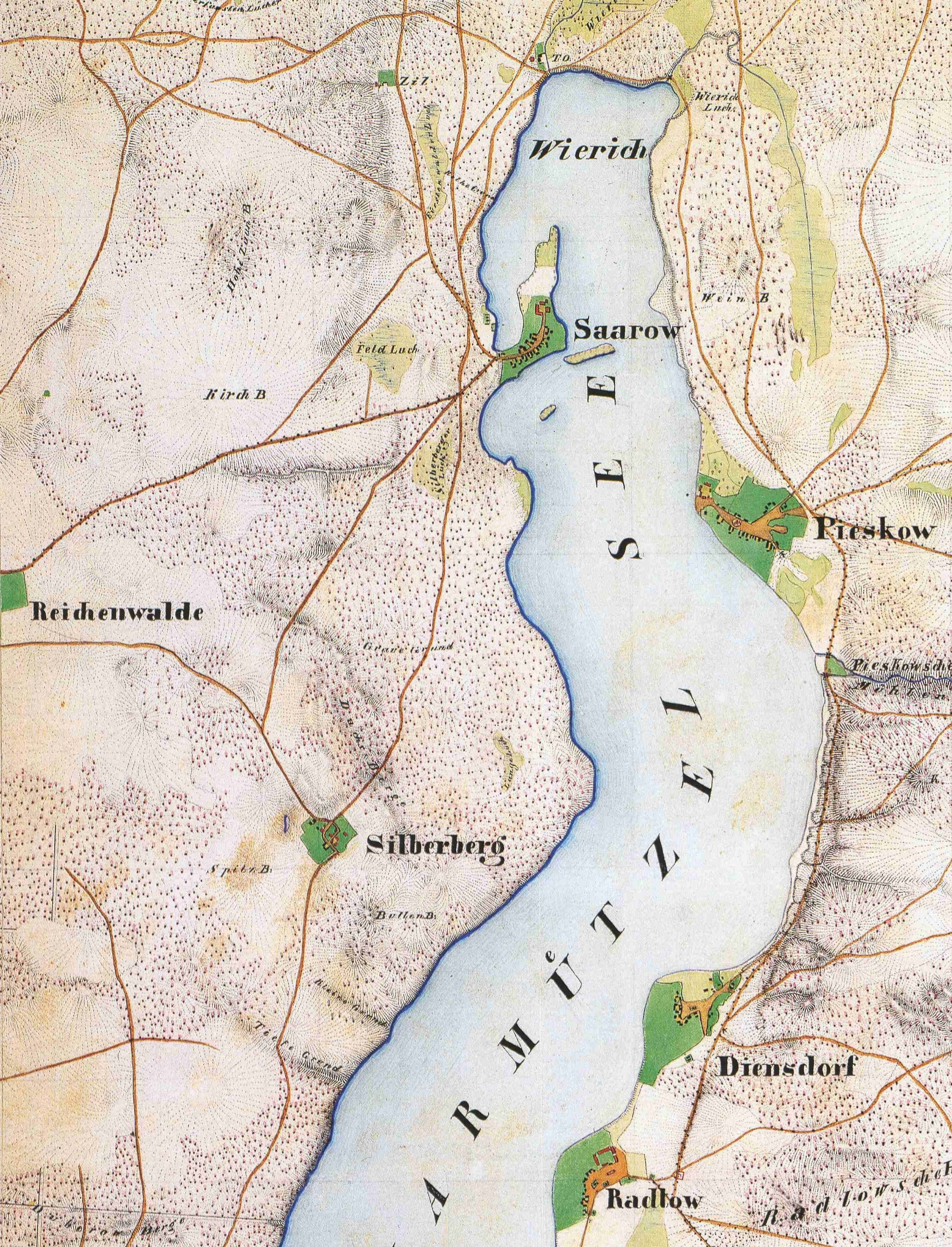 Scharmützelsee and parts of Bad Saarow (Bad Saarow Dorf, Pieskow, Silberberg), Diensdorf-Radlow and Reichenwalde in the District Oder-Spree, Brandenburg, Germany. Detail from the Urmesstischblatt (prototype planetable sheet at 1:25,000) Sheet 3750 Bad Saarow-Pieskow, drawn in 1844.